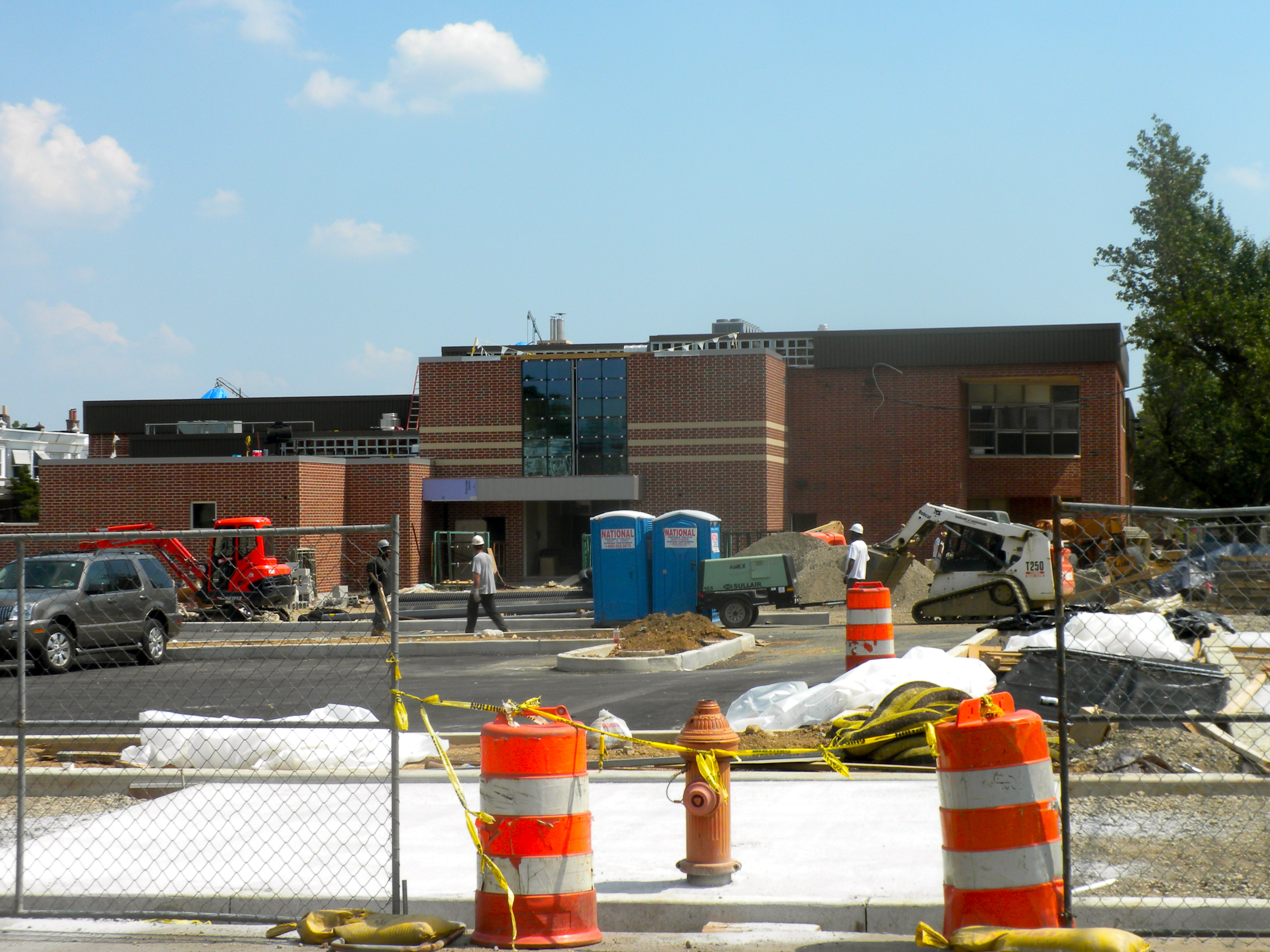 Universal Bluford Charter School on the former site of William B. Hanna School on NRHP since December 4, 1986. At 5720 Media Street in Carroll Park neighborhood of West Philadelphia. Parking lot is the site of the former school, the new school behind it is in the process of being expanded.